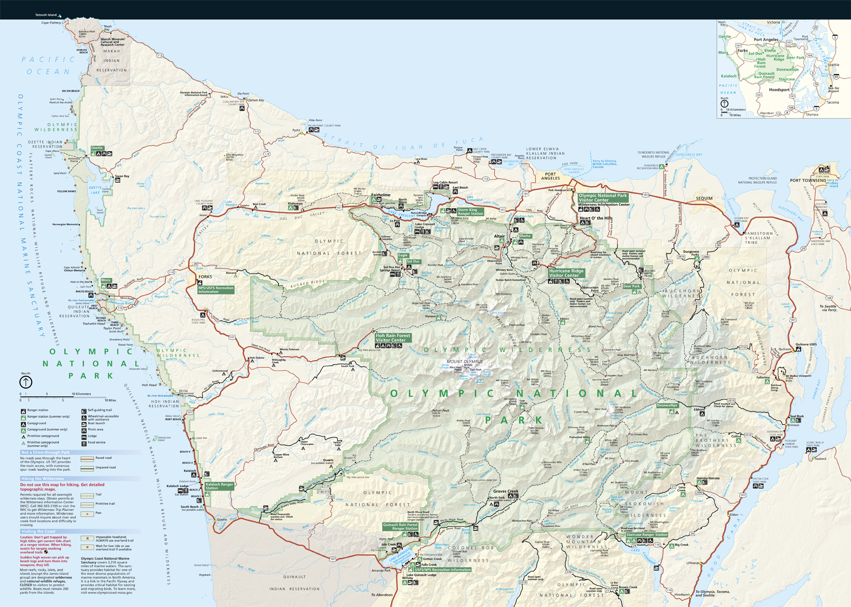 Map of Olympic National Park